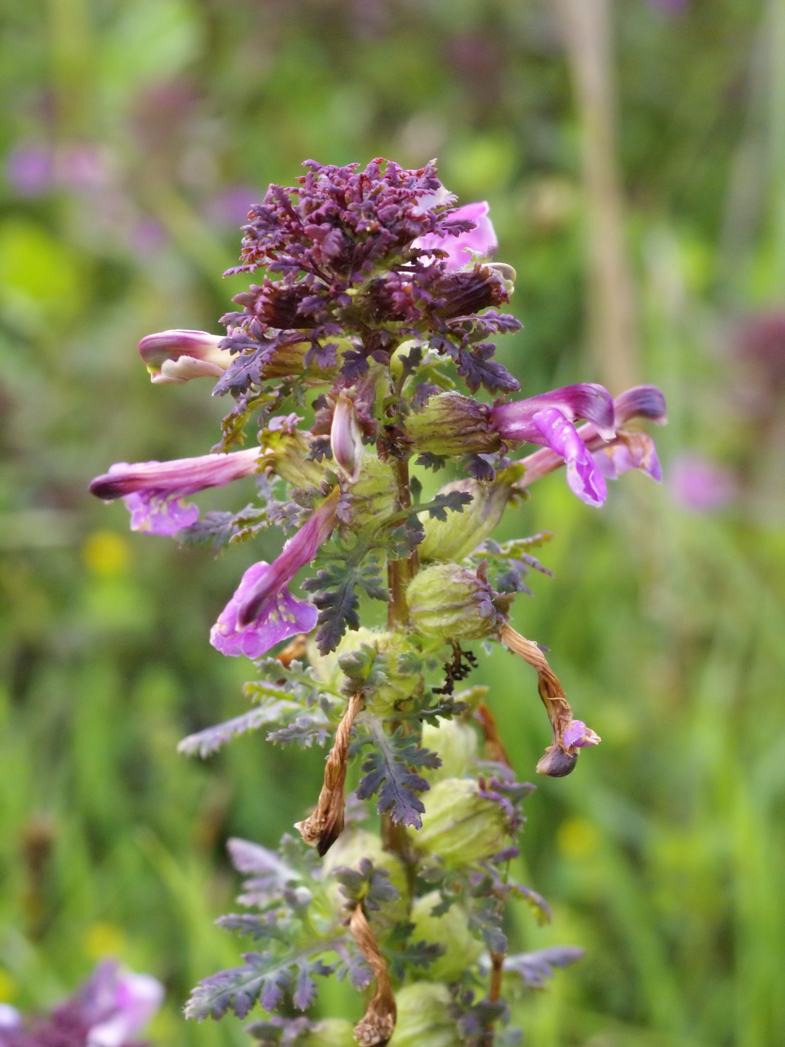 Marsh Lousewort, Oostkamp, Belgium.